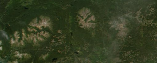 Aerial photo of the three Anahim shield volcanoes. From left to right: Rainbow Range, Ilgachuz Range, and Itcha Range.